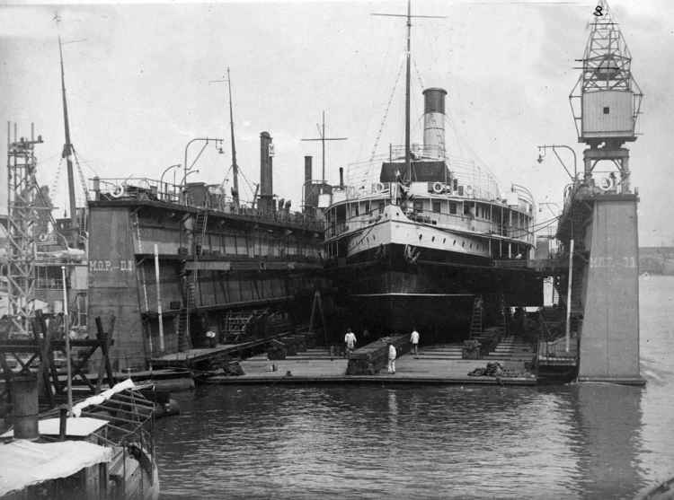 Bruselas – Argentine Navigation. 2,300 tons; built by Inglis, Pointhouse, Glasgow in 1911